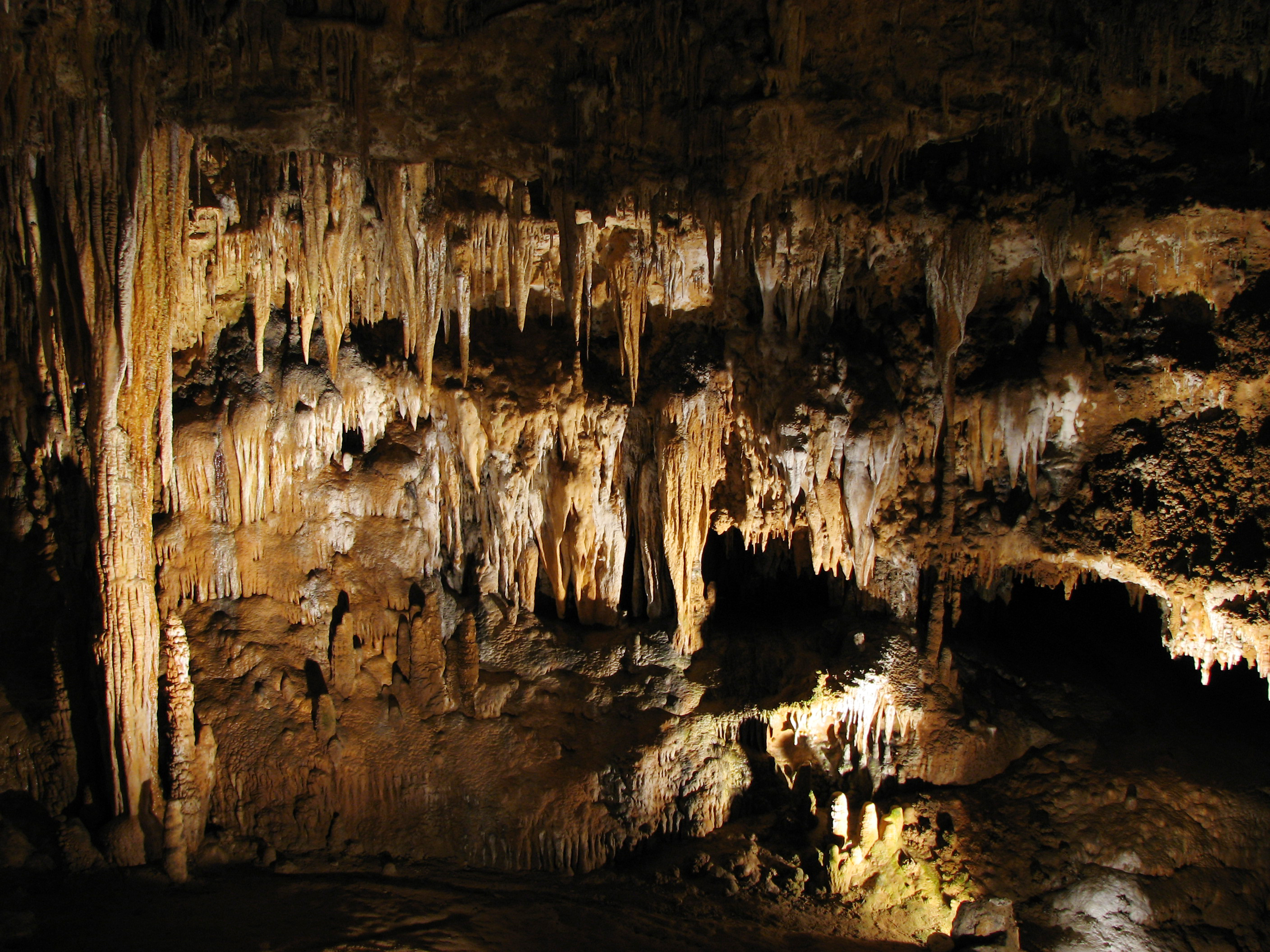 Luray Caverns